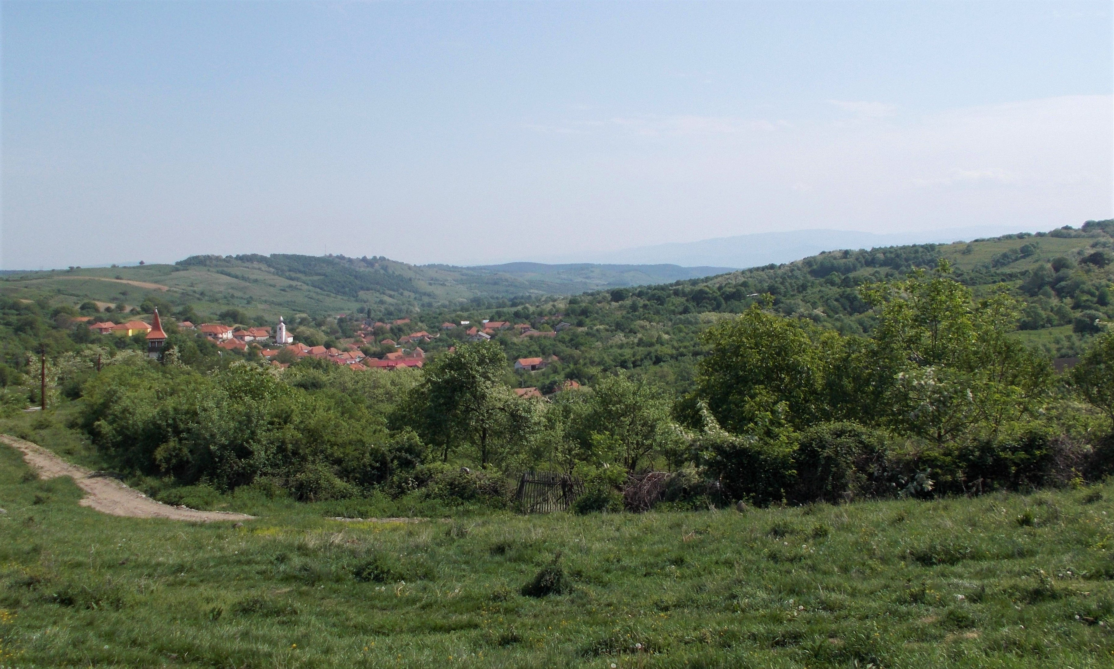 Silvașu de Sus, Hunedoara County, Romania